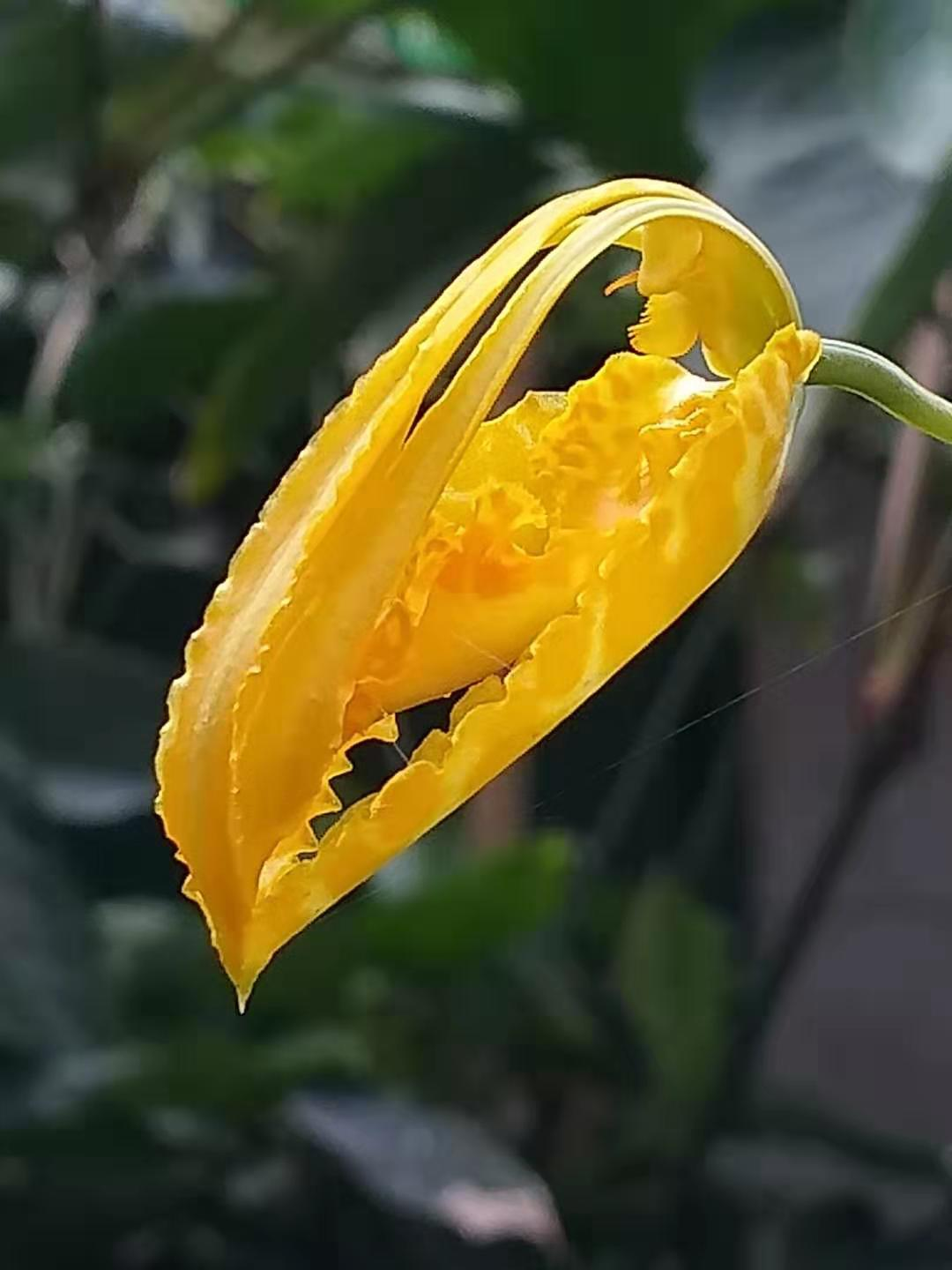 Psychopsis Kalihi, before the total bloom of the flower. Botanical Garden of National Museum of Natural Science, Taichung, Taiwan.